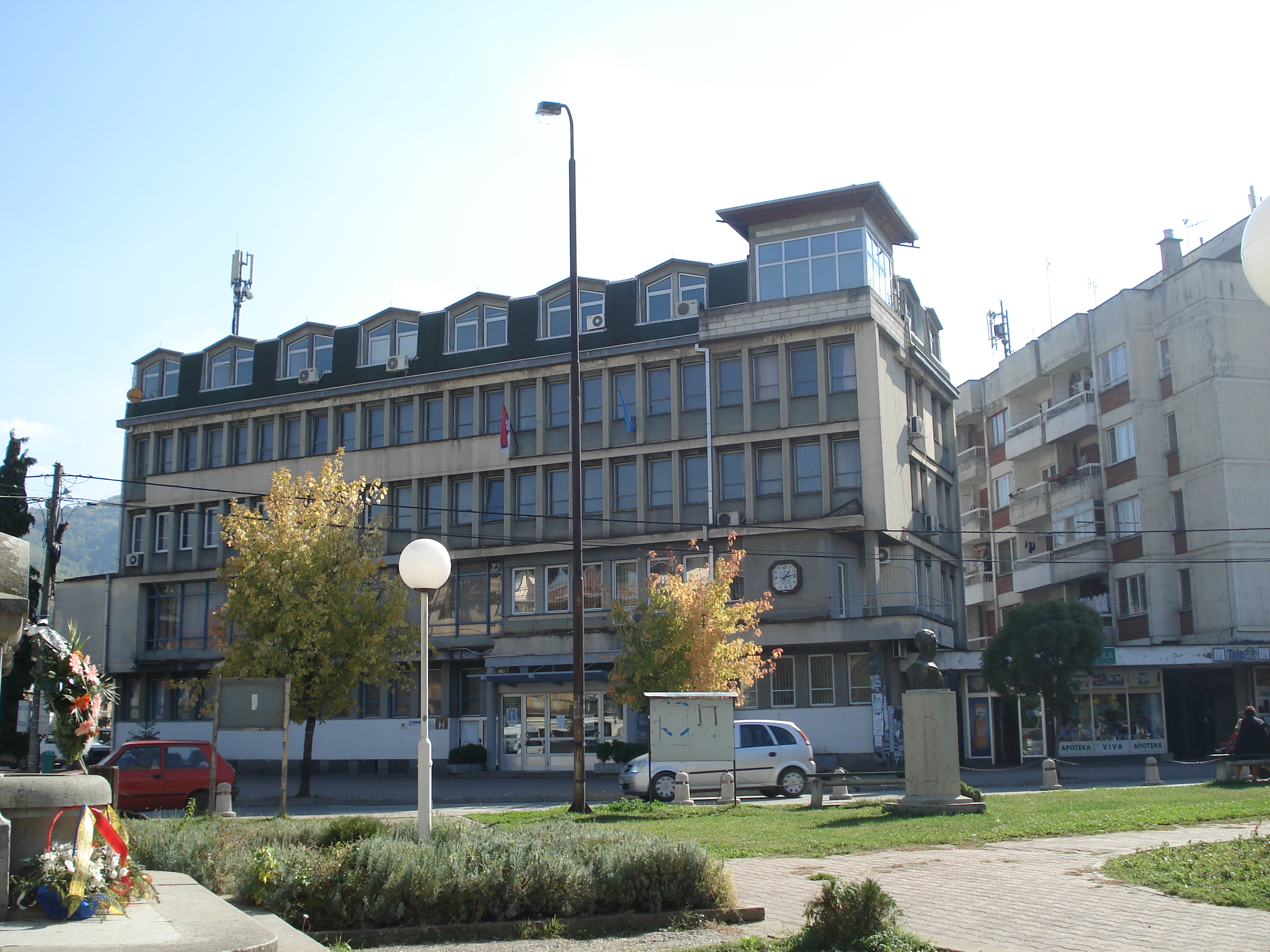 Opstina Vlasotince 01